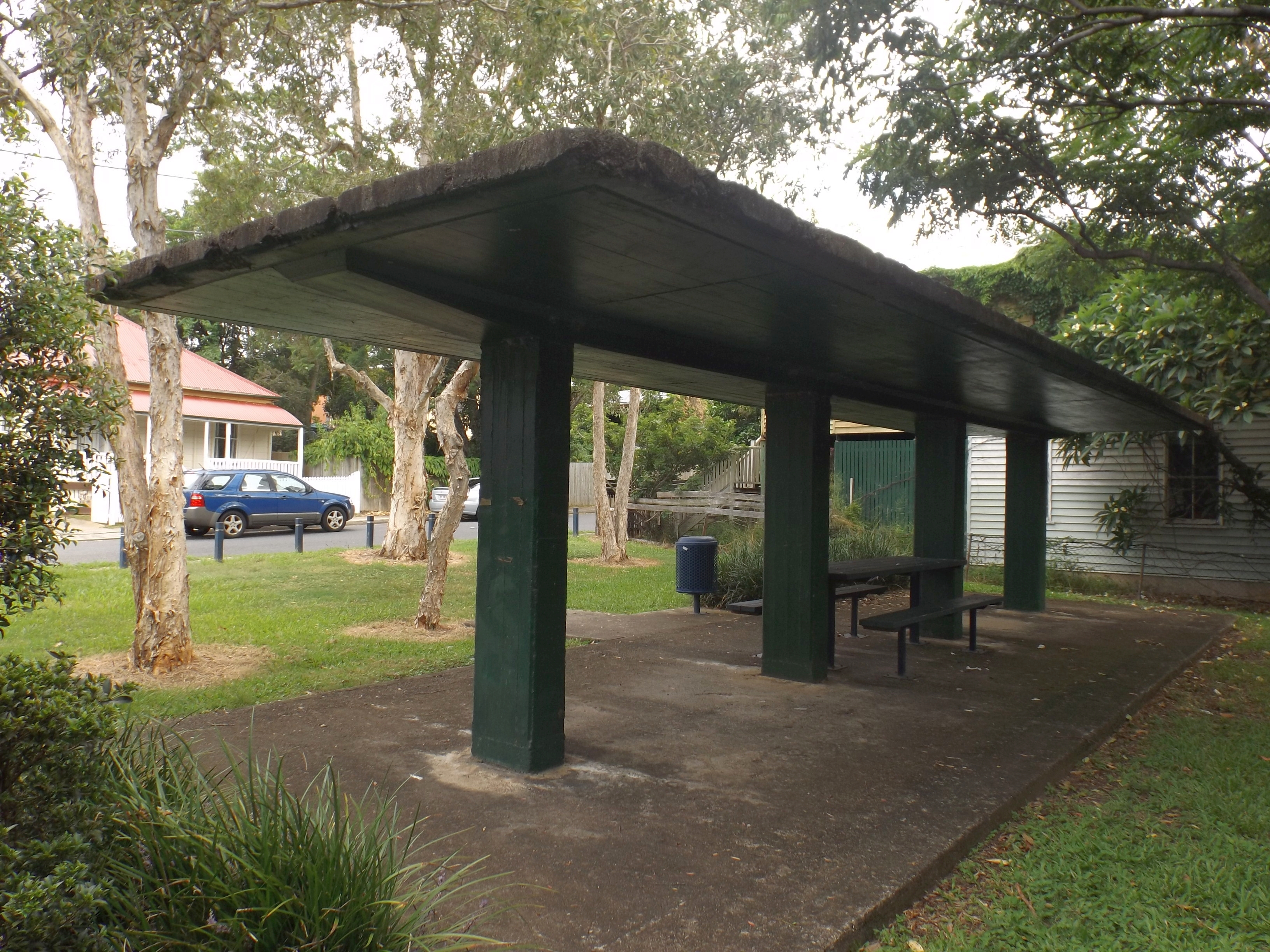 Photo of the Woolloongabba Air Raid Shelter in a park at Woolloongabba, Brisbane, Queensland, Australia.